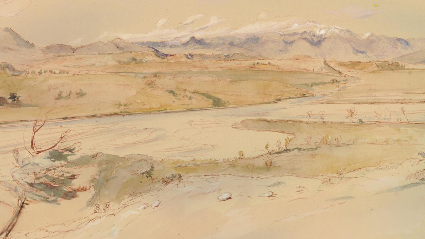 Junction of the Mangyr Tschai with Xanthus